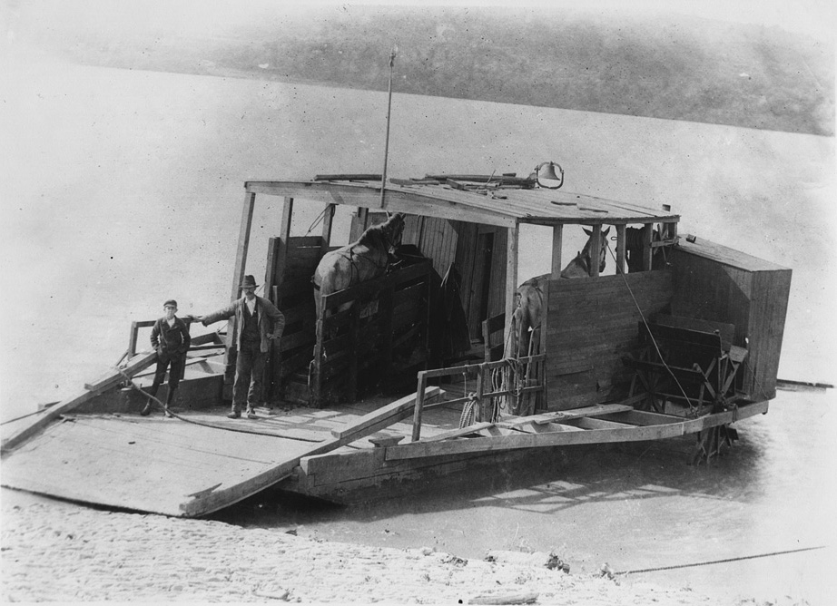 Horse ferry in Chillicothe Ohio in 1900. Two horsepower hay burner. Capt. Horace McElfresh and son. A wooden Team boat powered by two horses on treadmills, connected to side paddlewheels.